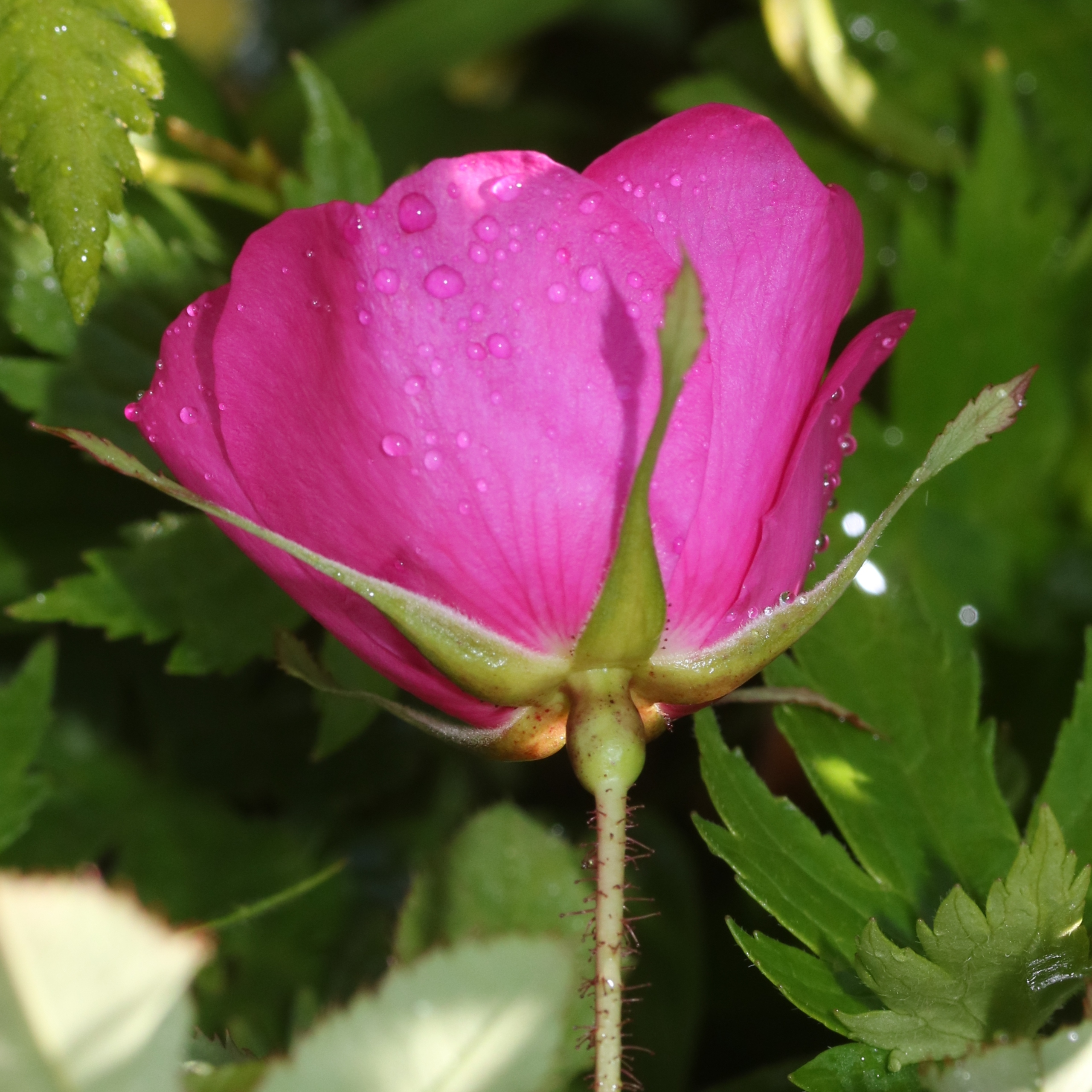 Rosa nipponensis in Mount Sannomine, Ryohaku Mountains, Ōno, Fukui Prefecture, Japan.